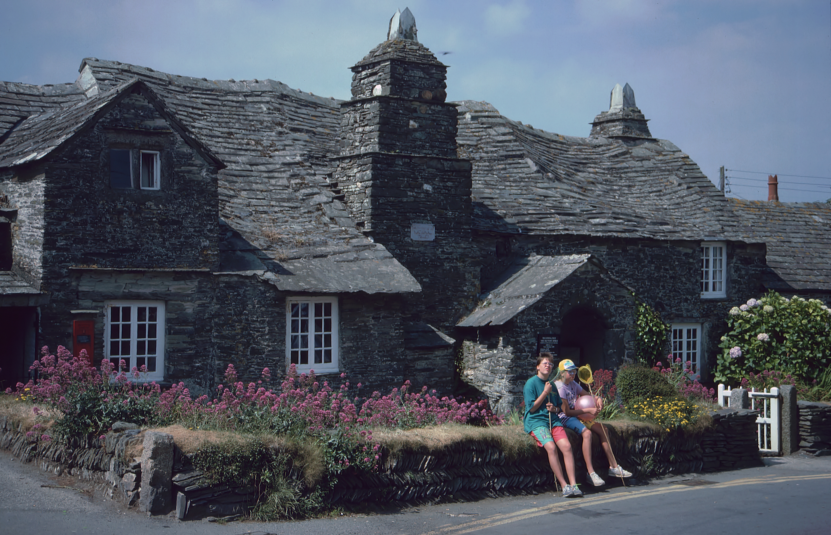 Village of Tintagel, Cornwall/UK; Old Post office